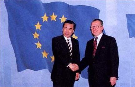 Tsutomu Hata, Prime Minister, met Jacques Delors, President of the European Commission, on May, 1994. (For terms of use, see 法的事項 ｜ 外務省.)